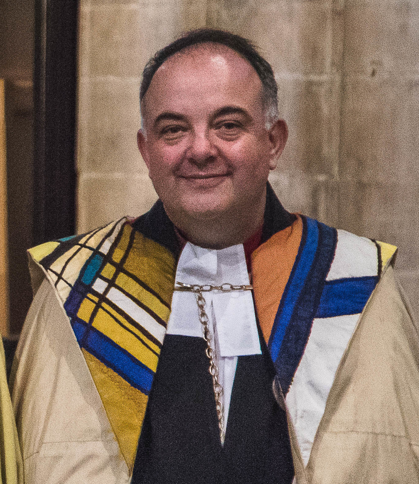 The Venerable Dr Christopher Cunliffe, Archdeacon of Derby; the Rt Revd Jan McFarlane, Bishop of Repton; the Rt Revd Dr Alastair Redfern, Bishop of Derby; the Venerable Carol Coslett, Archdeacon of Chesterfield and the Very Revd Stephen Hance, Dean of Derby. Photograph taken at the Collation and Commissioning Service for the eighth Archdeacon of Chesterfield at the parish church of Chesterfield, St Mary and All Saints - the Crooked Spire - on Saturday, 10 March 2018